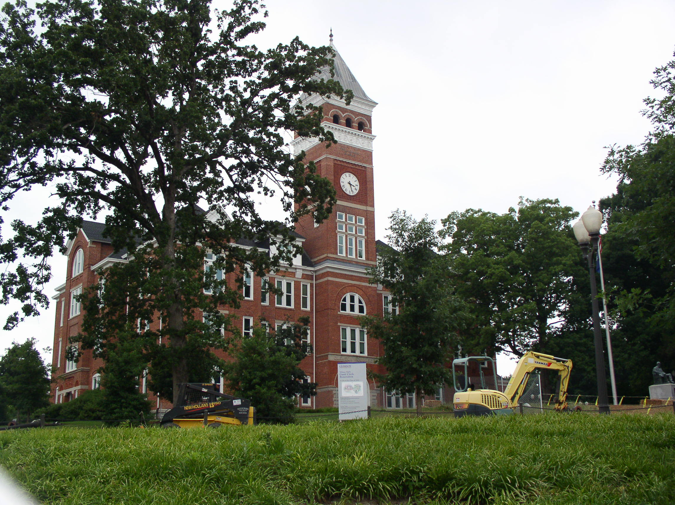 Tillman Hall of Clemson University